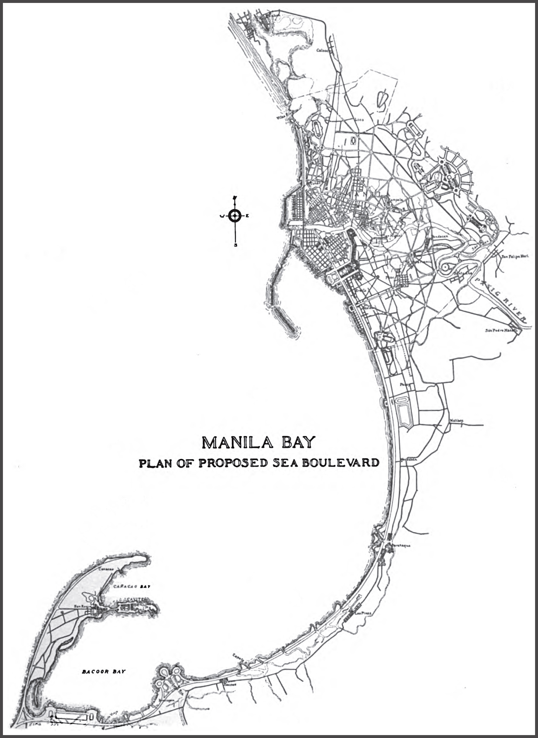 The original 1905 plan of Cavite Boulevard in the Manila region — by Daniel Burnham. Later renamed Dewey Boulevard, and now the present day Roxas Boulevard Road conects central Manila, along Manila Bay, with the port of Cavite City